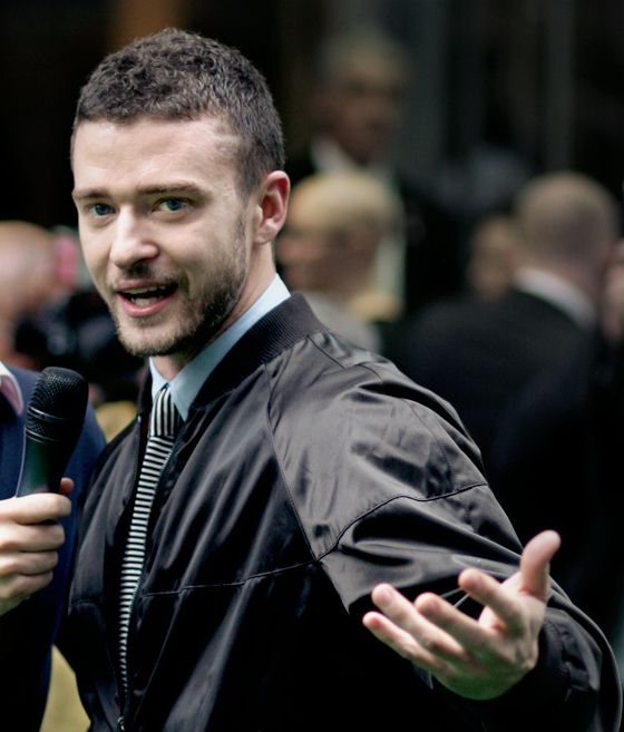 Justin Timberlake at the Shrek the Third London premiere.